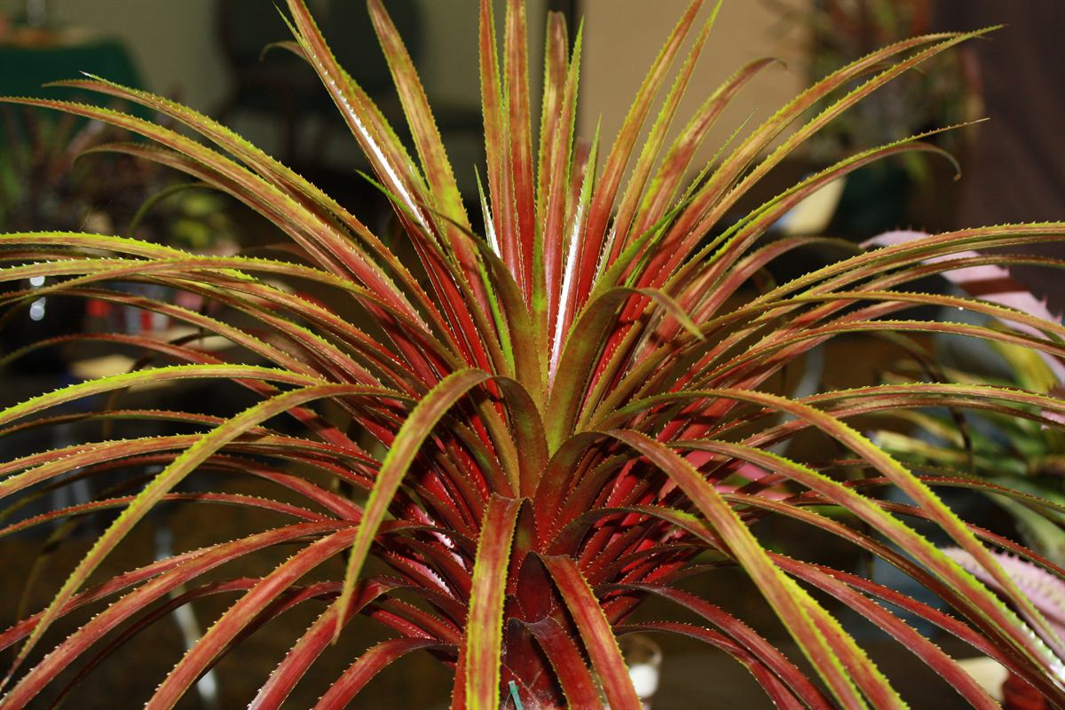 xNeophytum 'Burgundy Hill'